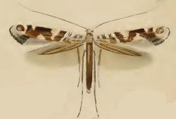 Stainton’s Natural History of the Tineina (1855–1873): Caloptilia syringella